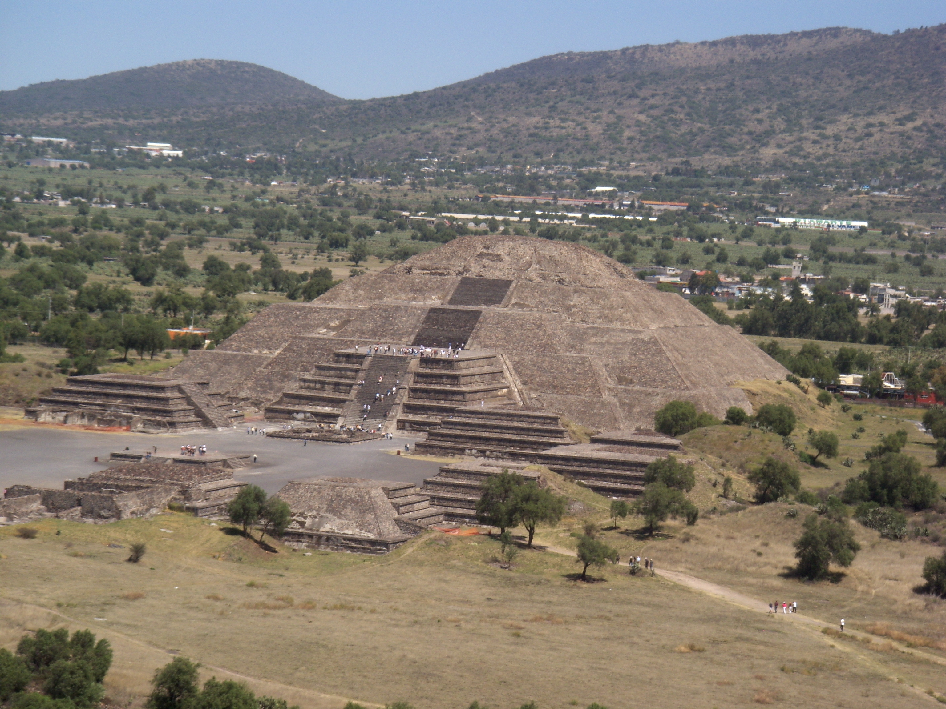 The Pyramid of the Moon in Teotihuacan, México